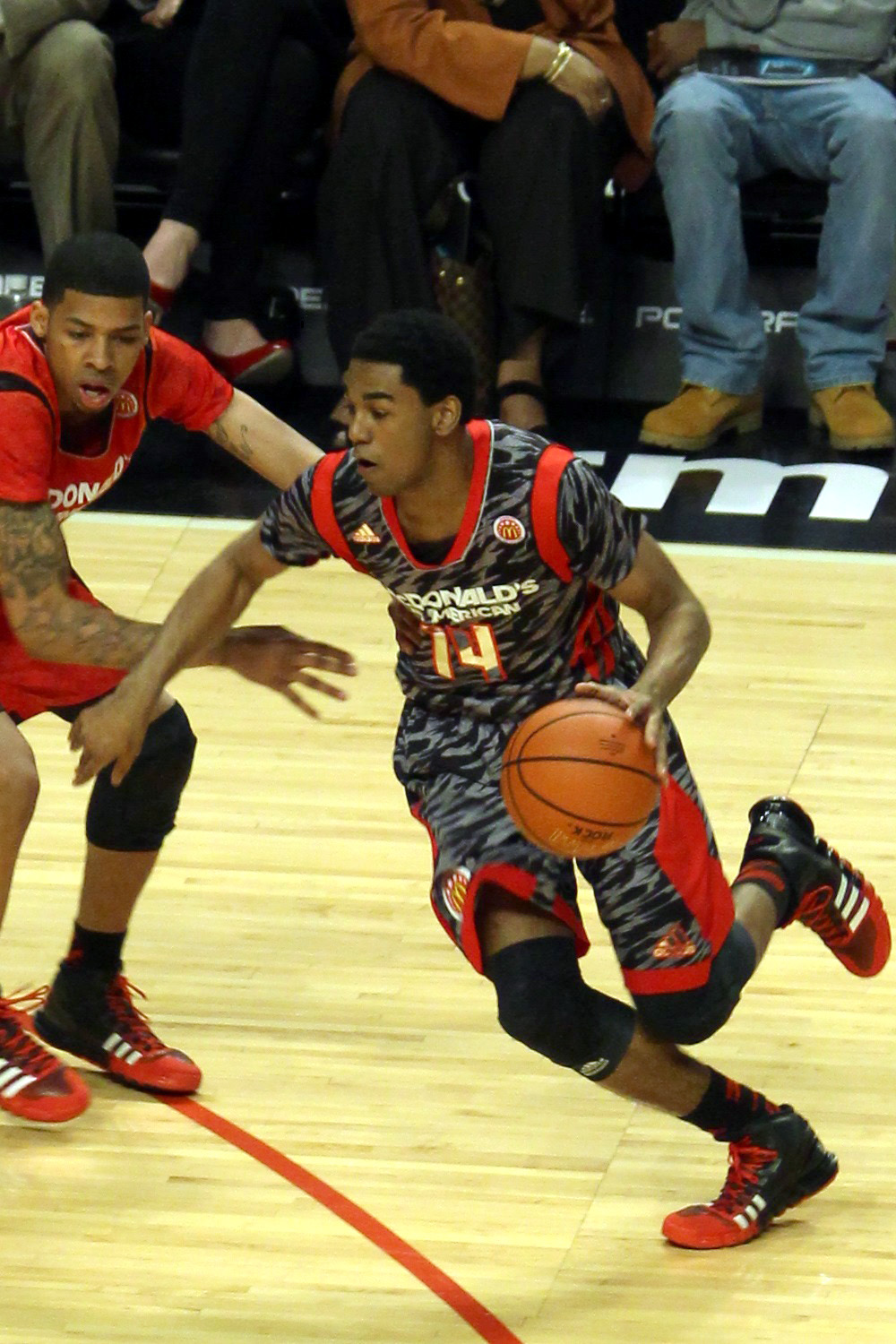 Matt Jones driving against Keith Frazier at the w:2013 McDonald's All-American Boys Game